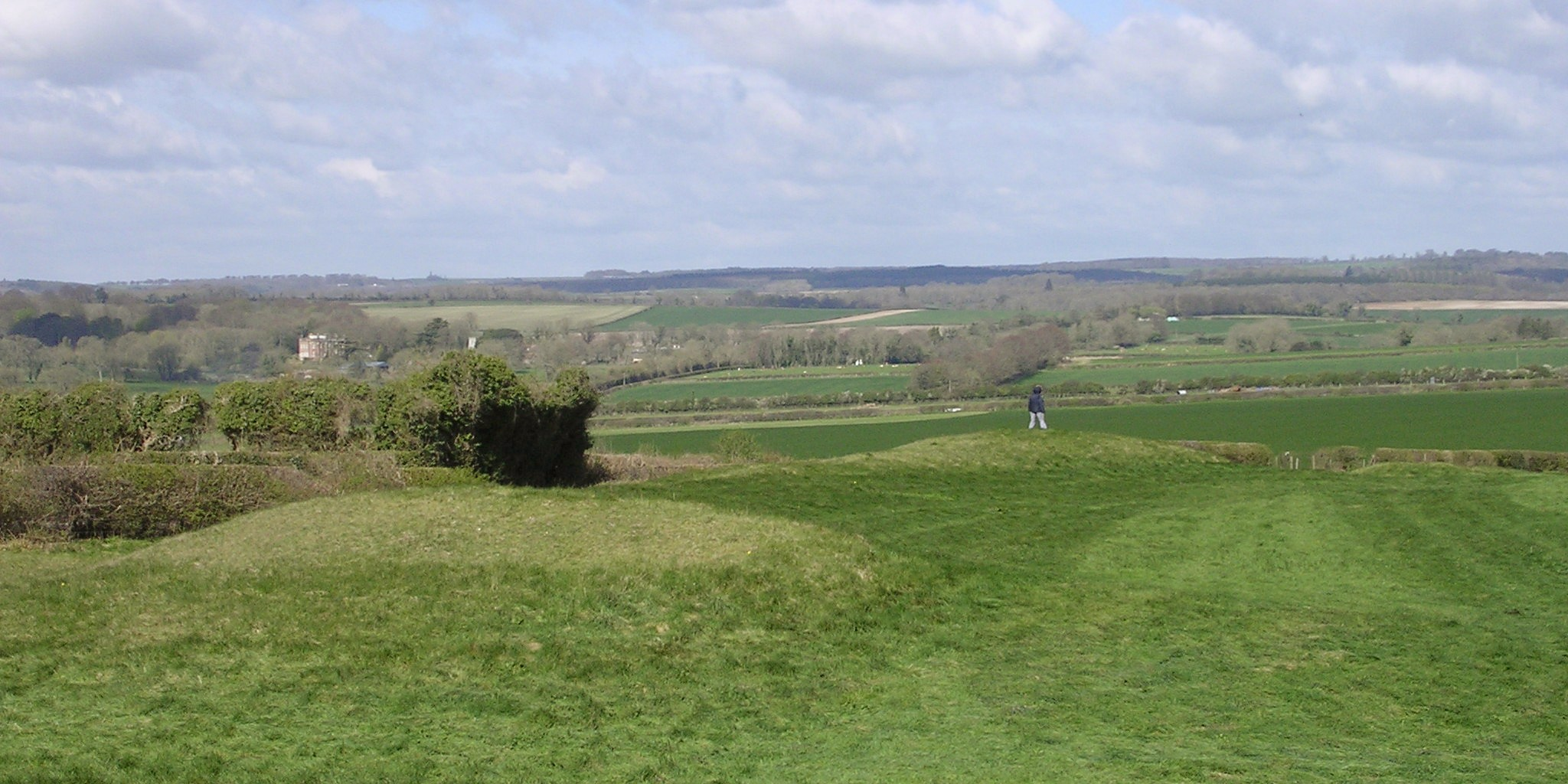 Looking northwest at the earthworks of the Dorset Cursus' southwestern terminal from the nearby long barrow. The enlarged bank ends can be clearly seen, and the end of the cursus is squared off with a terminal bank about 100m in length. The course of the Cursus heads off to the right of the picture, towards the long barrow on Gussage Hill.